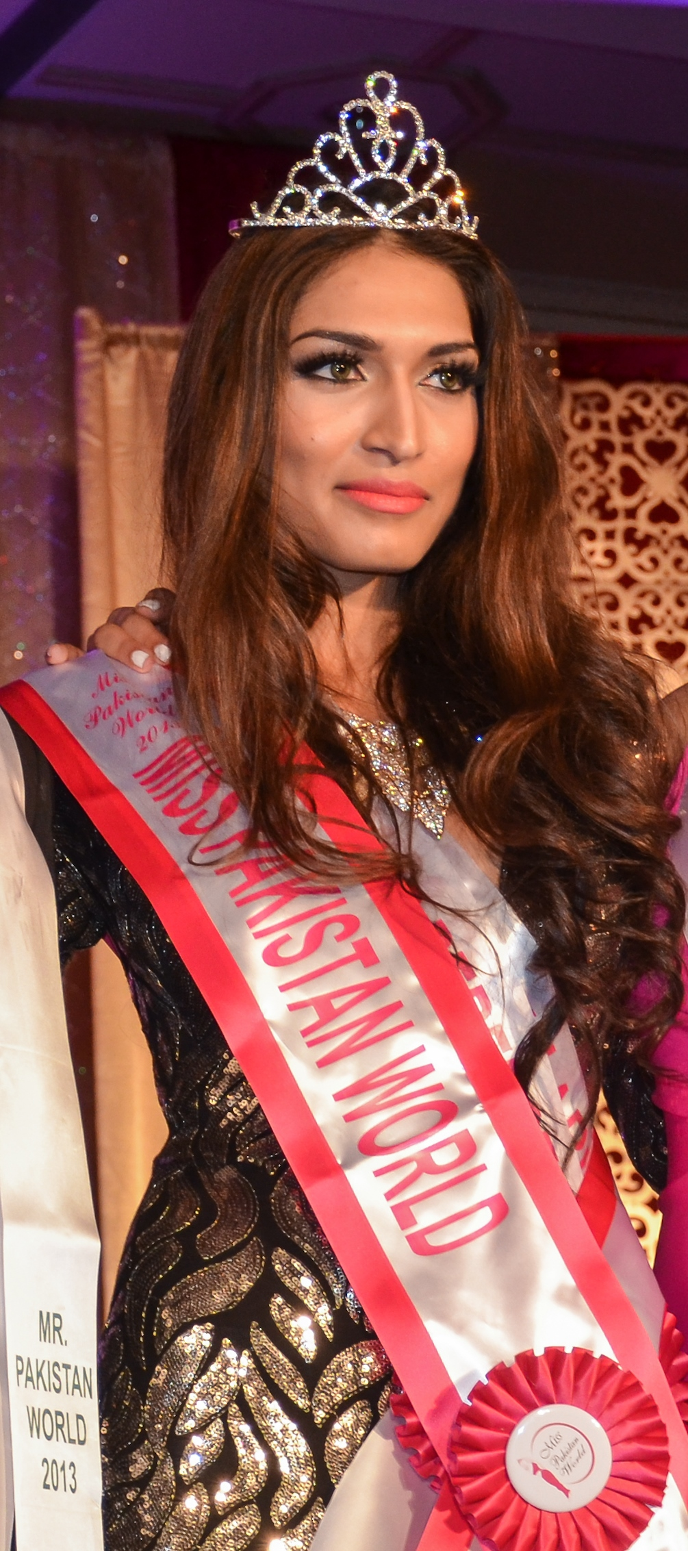 Shanzay Hayat